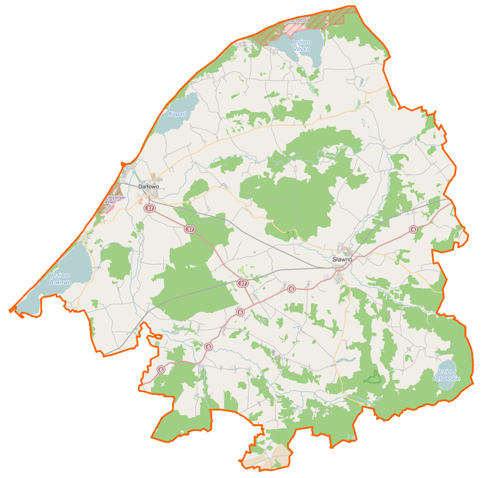 Map of Powiat sławieński, Poland This map of Powiat sławieński was created from OpenStreetMap project data, collected by the community. This map may be incomplete, and may contain errors. Don't rely solely on it for navigation.